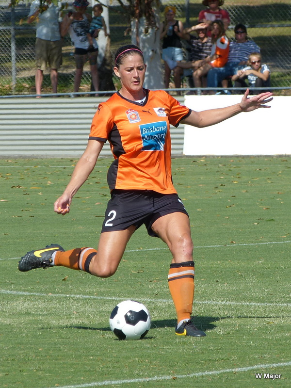 Laura Alleway (Brisbane Roar Women), 12 January 2014, AJ Kelly Fields